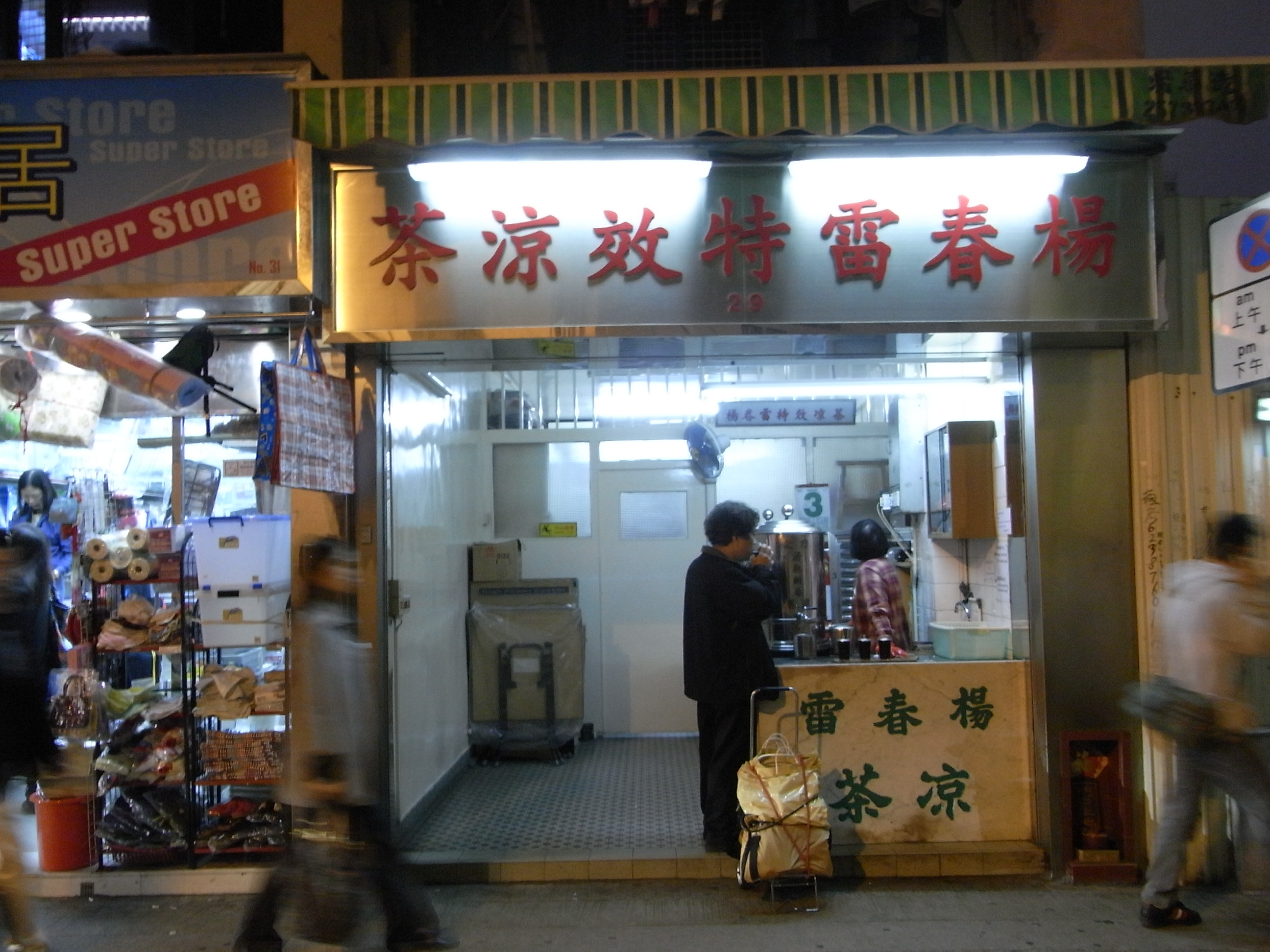 灣仔春園街